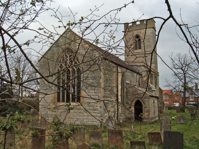 Church of St. Giles, Cromwell